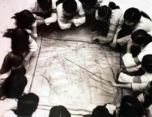 Women's Special Forces Division 6 studies maps of District 7, Saigon, during the Tet Offensive.